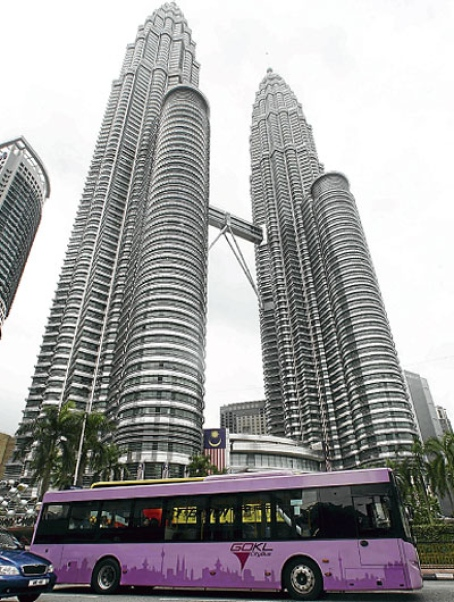 GOKL KLCC